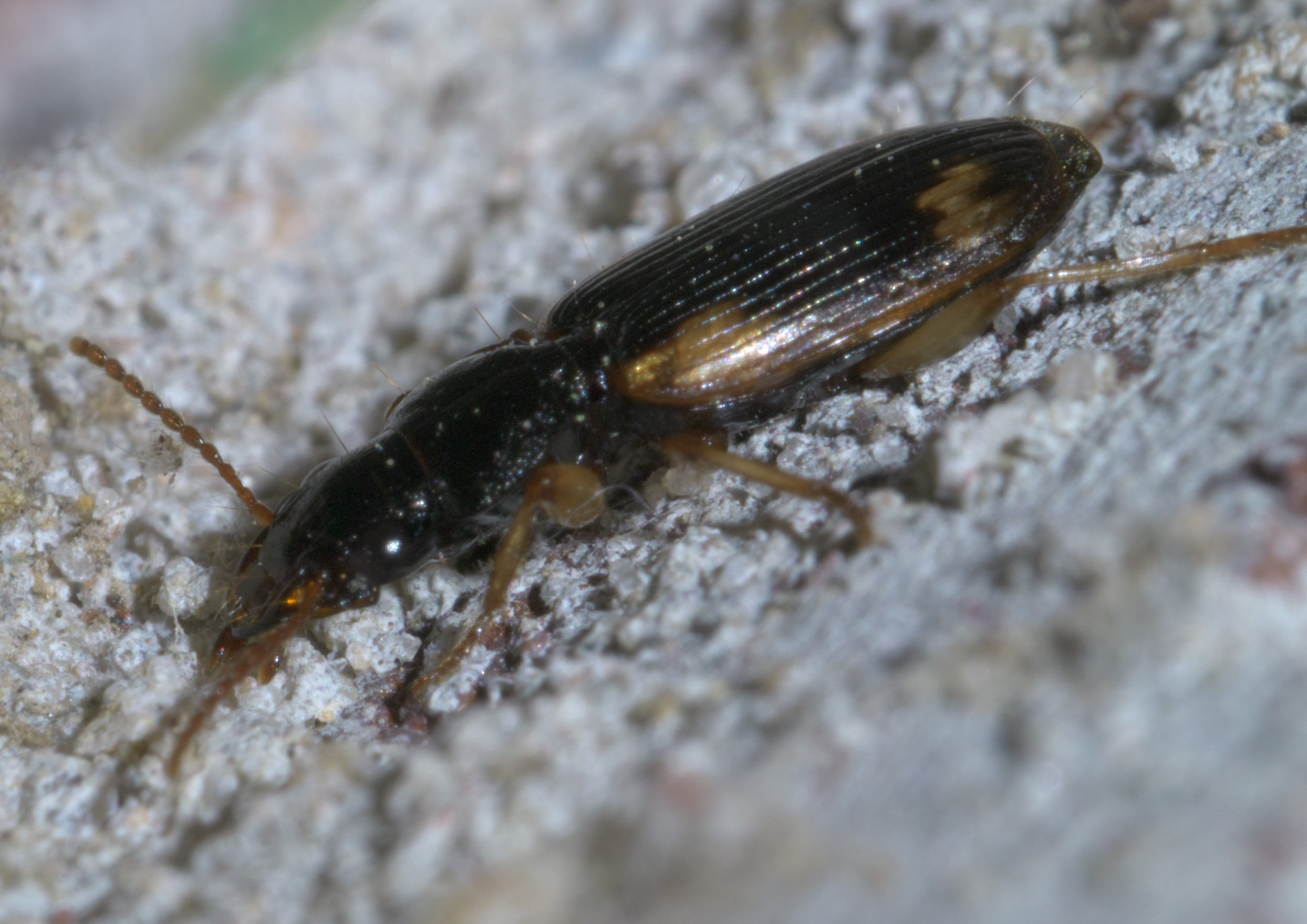 Apenes sinuata, Family: Ground Beetles, Size: 7 mm, ID Confidence: 98